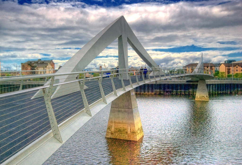 A south facing view of the Tradeston Bridge, Glasgow